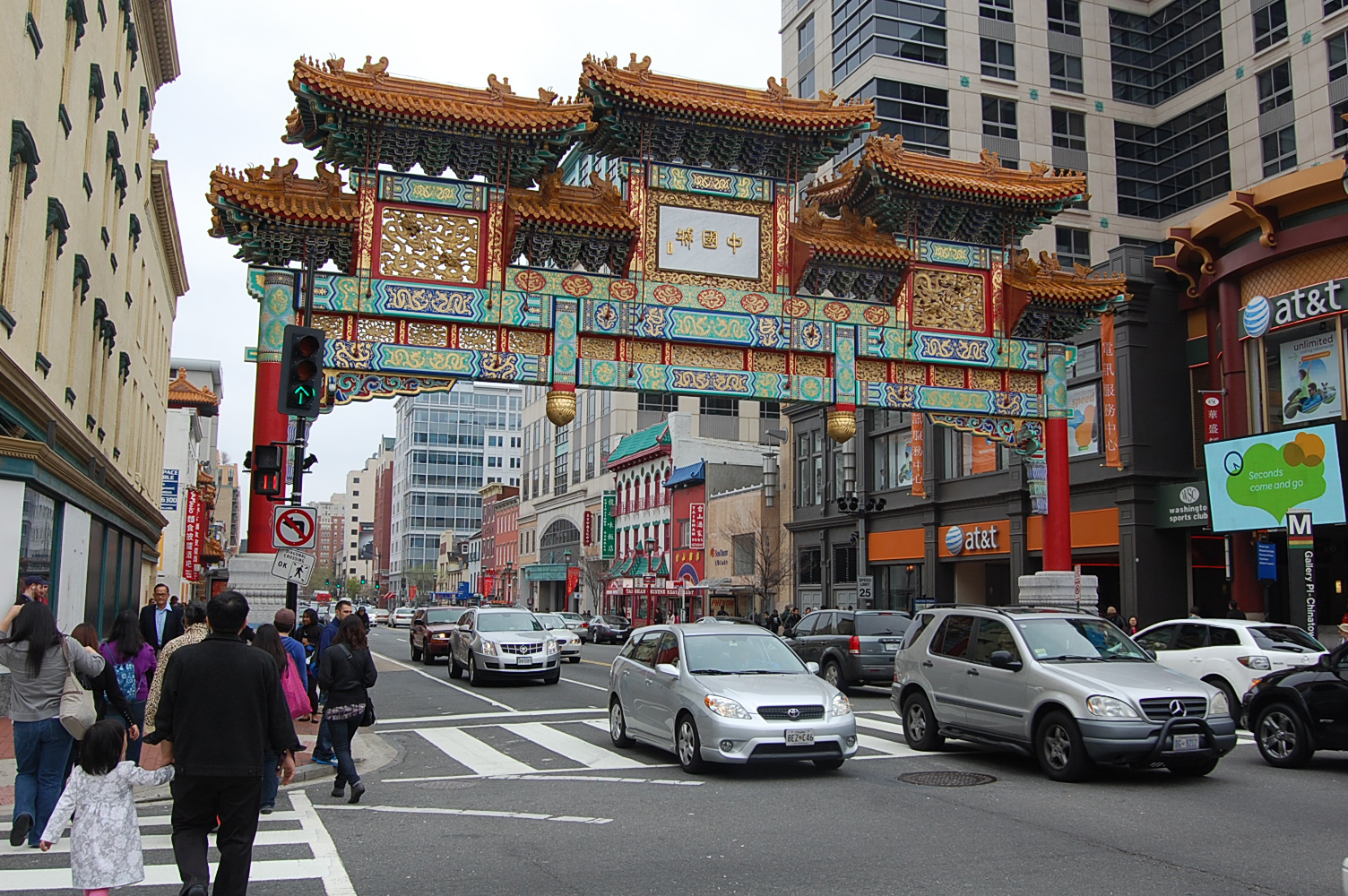 Chinatown Washington DC 2011